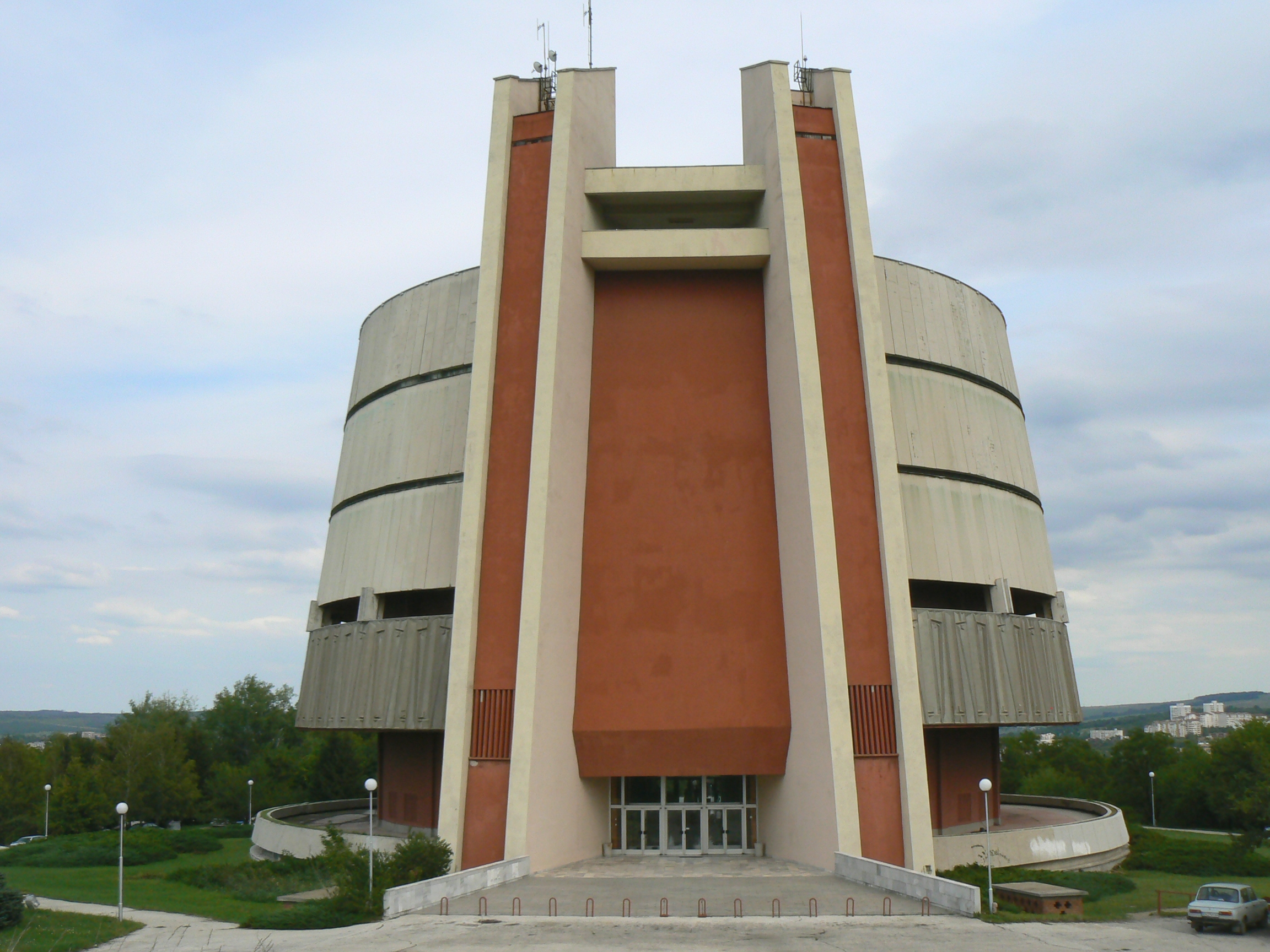 Photo from outside of the Panorama "Pleven epopee 1877", Pleven, Bulgaria